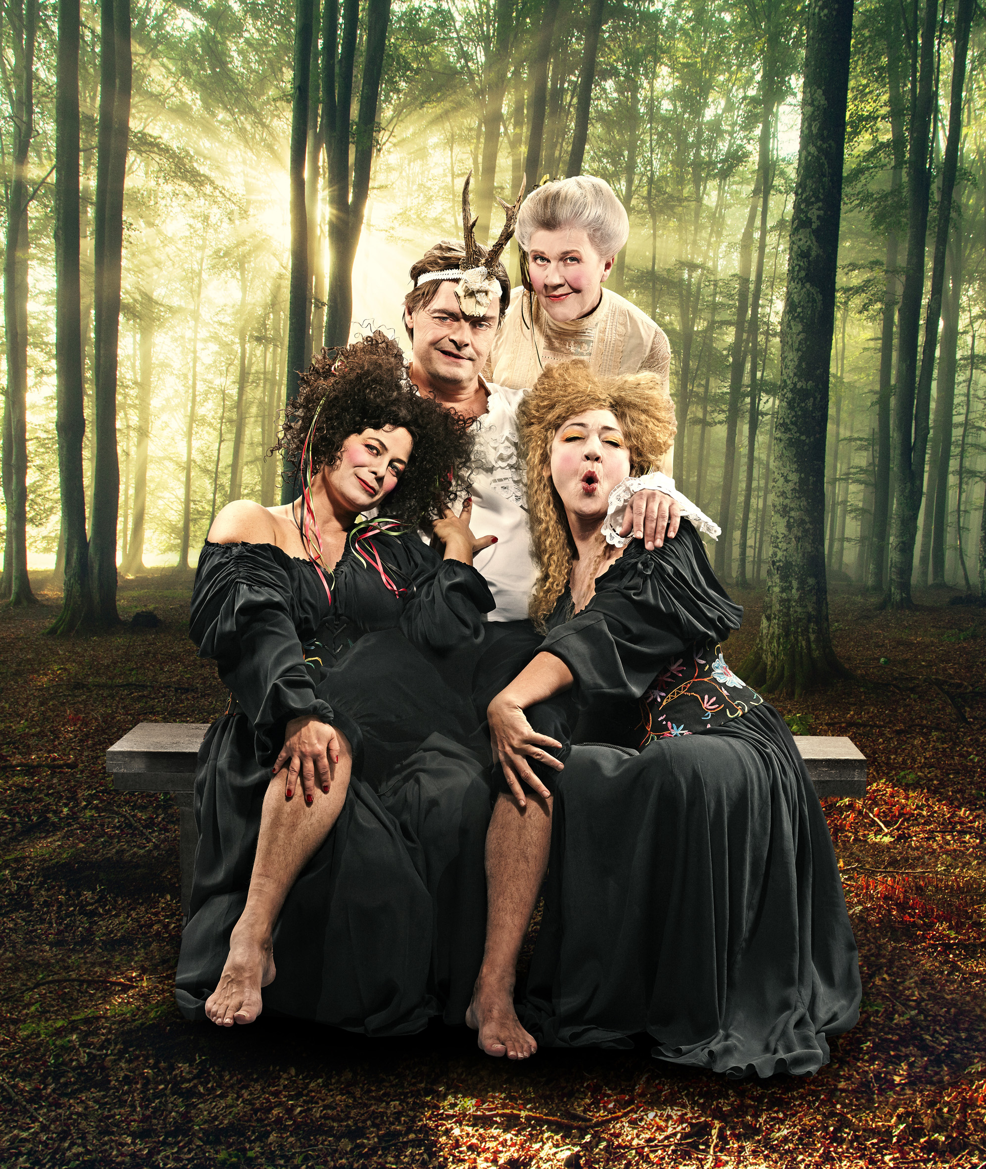 The Copenhagen theater Folketeatret's production of the play "De lystige koner fra Windsor" (The Merry Wives of Windsor) from 1602 by William Shakespeare.